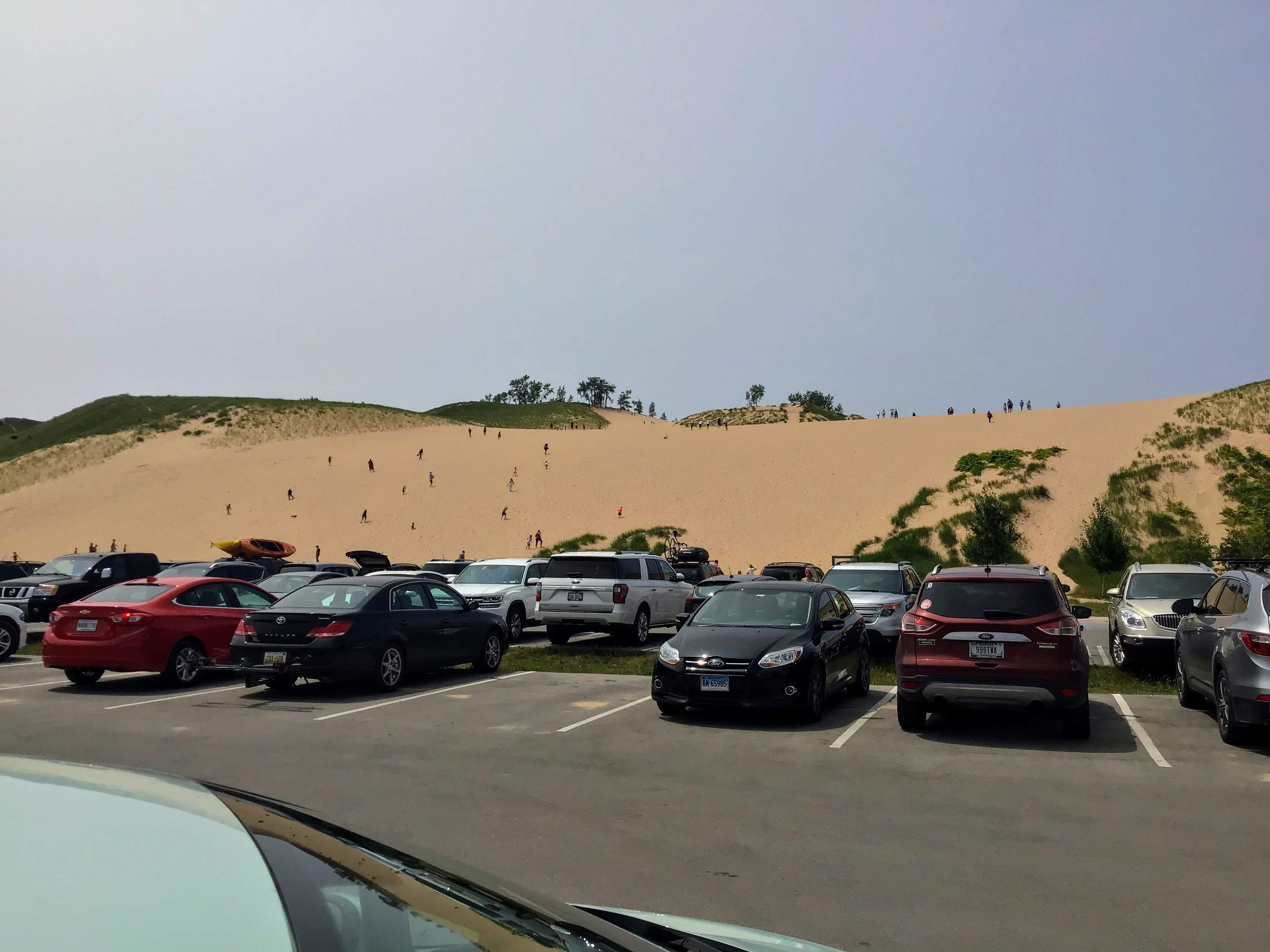 Dune Climb, at Sleeping Bear Dunes National Lakeshore, Michigan, United States. Taken with 6th generation iPad.